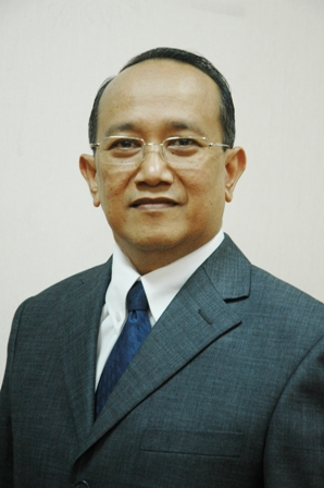 Nadjib Riphat Kesoema as Indonesia Ambassador to Belgium